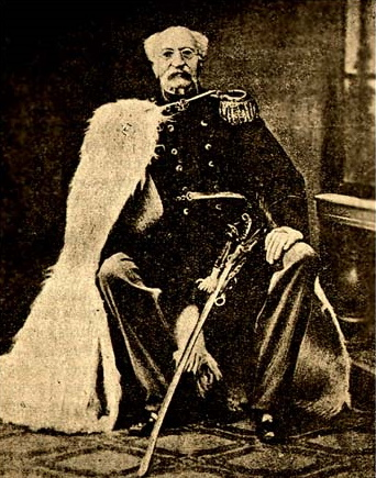 Zass, Grigory Khistoforovich von Zassz (1797-1883) was Russian general of cavalry, participated in Caucasian war. Founder of city Armavir.